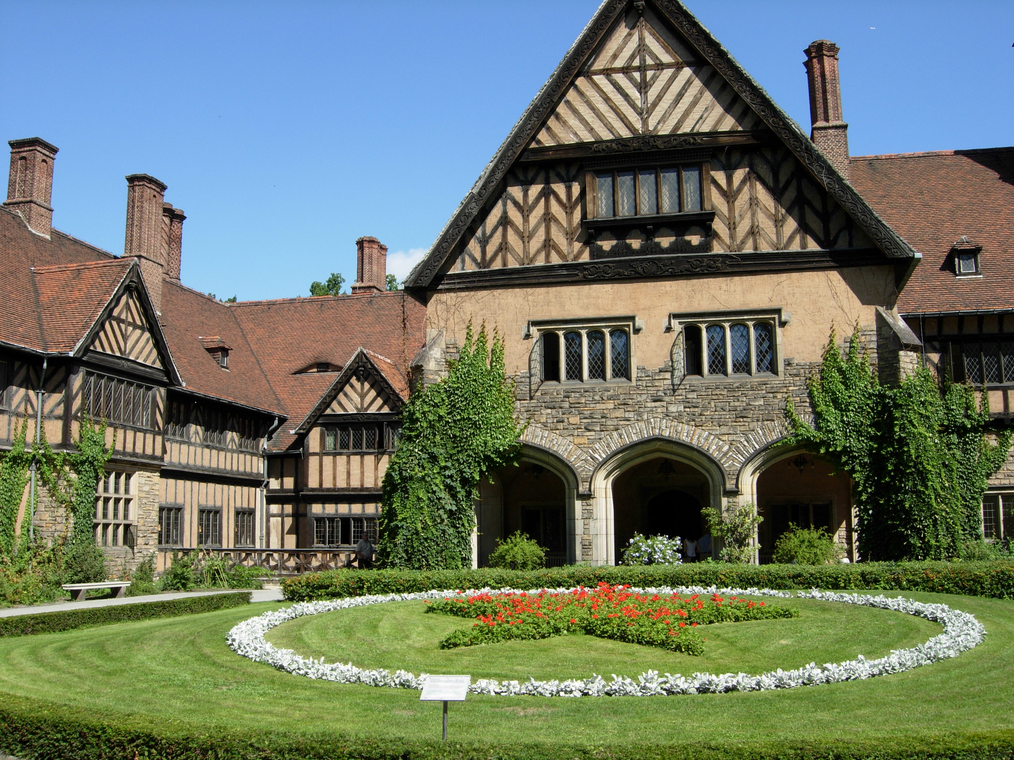 Cecilienhof Palace Author: K. Lyall